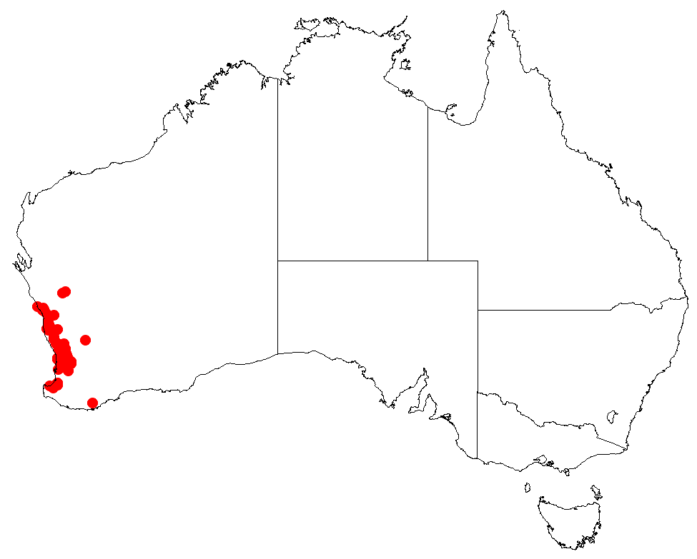 Hakea stenocarpa Occurrence data downloaded from Australasian Virtual Herbarium on 22 November 2018 using